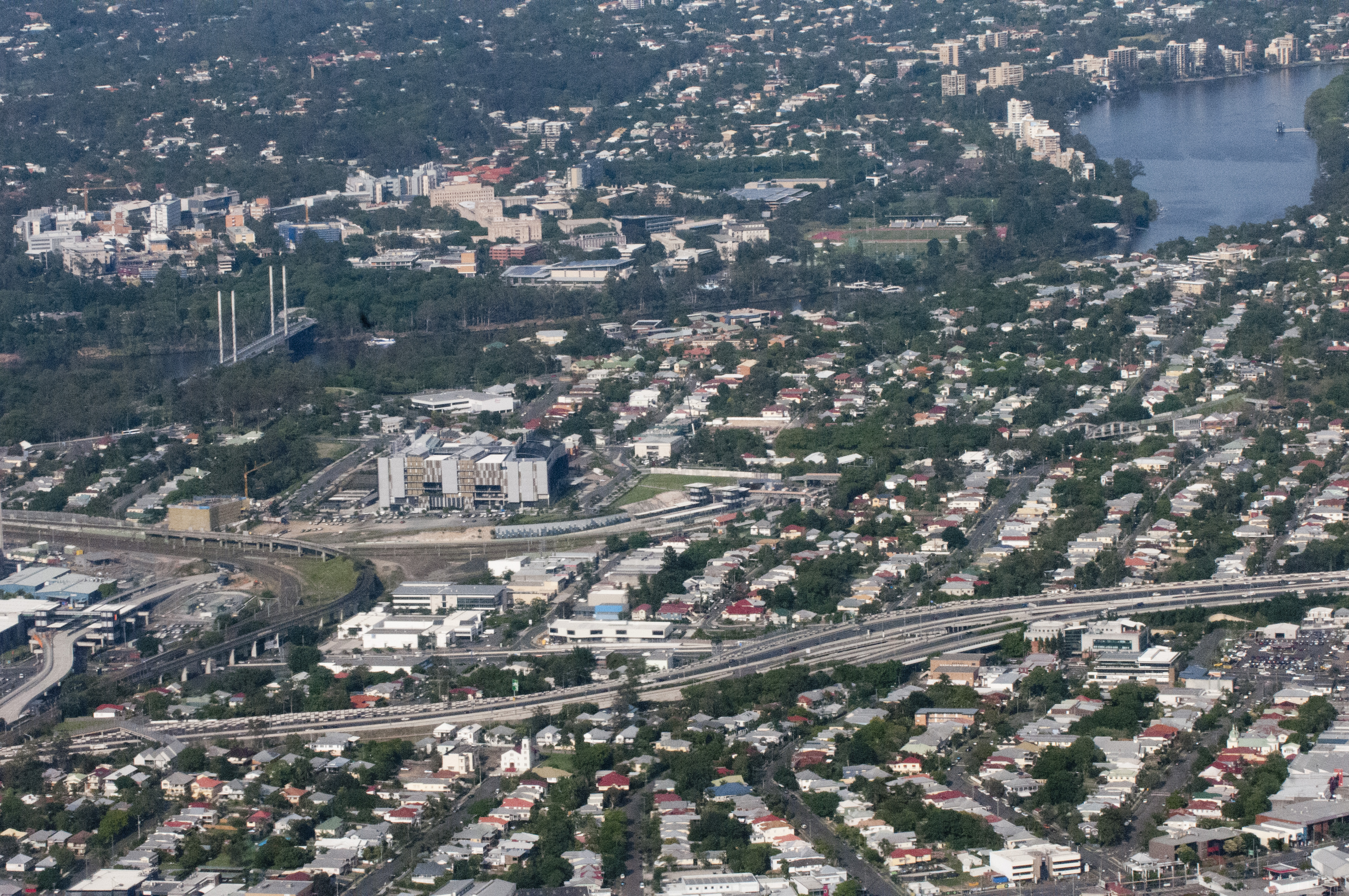 Aerial view of University of Queensland and Dutton Park